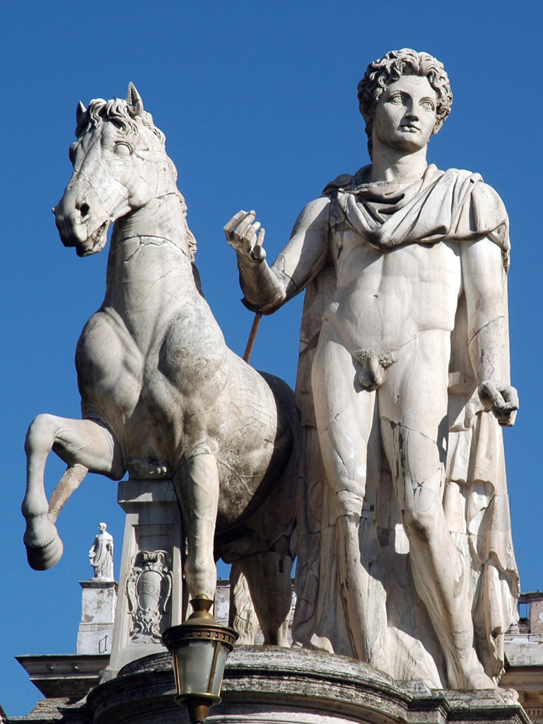 Dioscuri (Pollux or Castor), Rome, Capitol